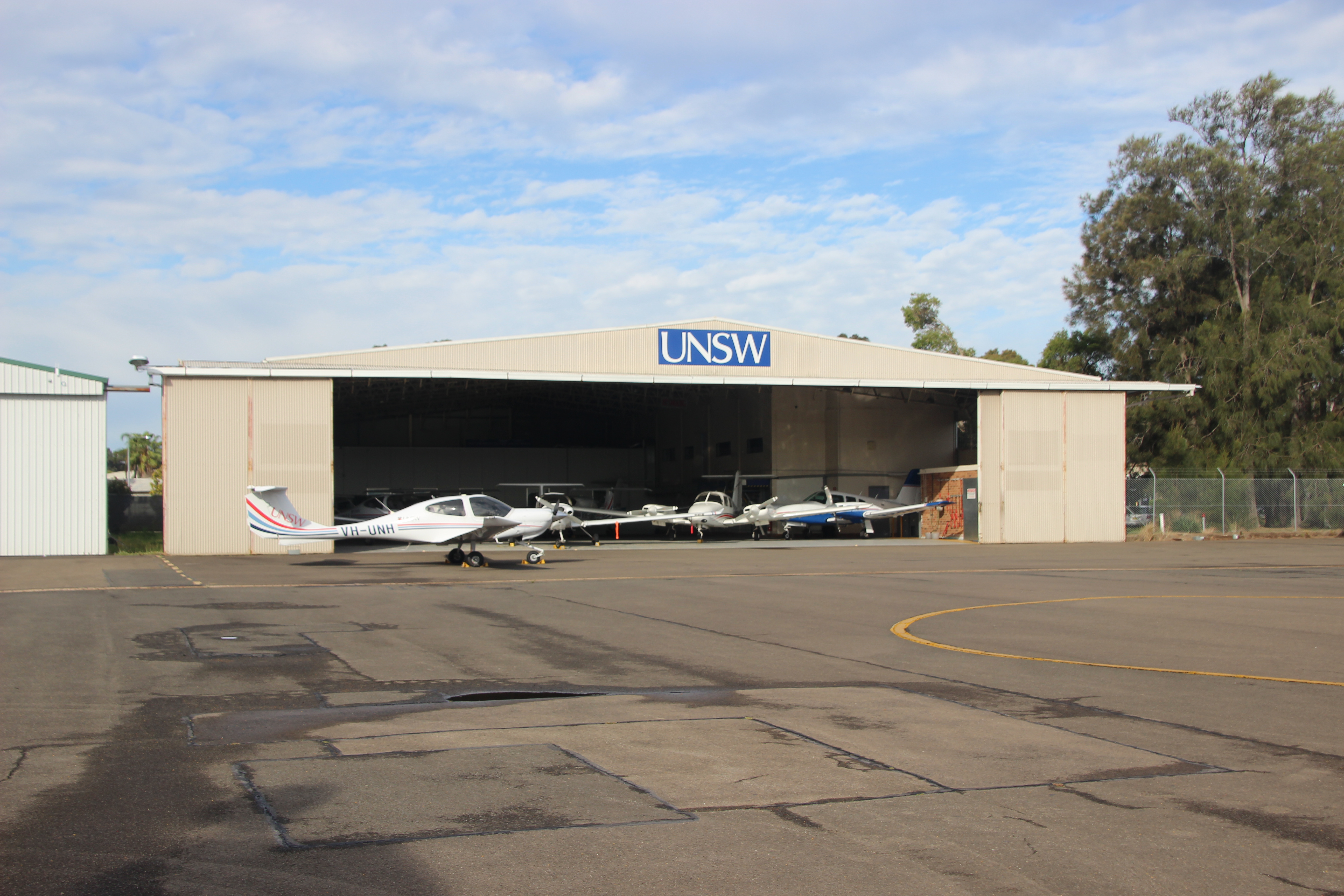 The hangar of the University of New South Wales' School of Aviation at Bankstown Airport in Sydney. Digital image taken by YSSYguy on 17 October 2016 and uploaded for use in the UNSW Faculty of Science article. YSSYguy (talk) 01:19, 15 November 2016 (UTC)